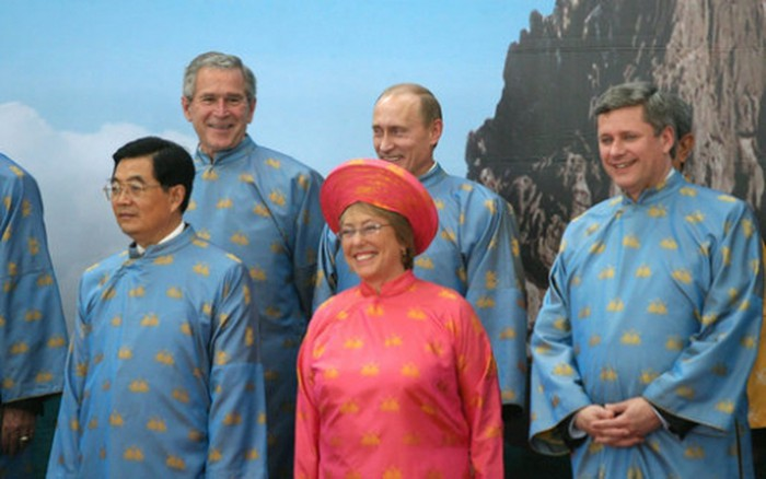 U.S. President George W. Bush joins Russian President Vladimir Putin, Canada's Prime Minister Stephen Harper, President Michelle Bachelet of Chile, and President Hu Jintao of China as they await the official 2006 APEC portrait Sunday, Nov. 19, 2006, in Hanoi. White House photo by Eric Draper Costume: Áo Dài